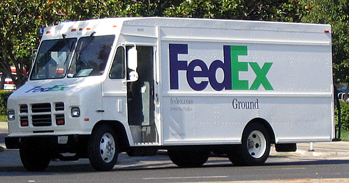 A typical FedEx Ground truck. Photographed in Mountain View, on August 26, 2005.